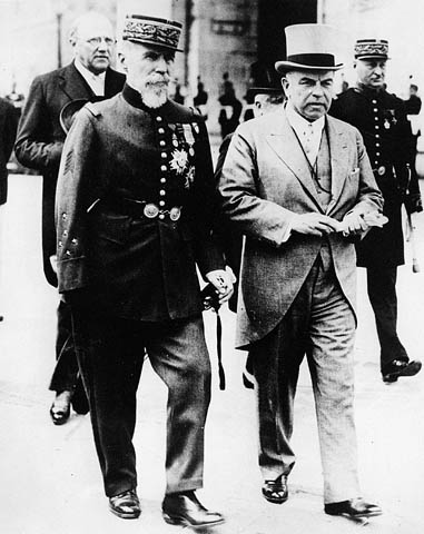 Rt. Hon. W.L. Mackenzie King with General Henri Gouraud at the Tomb of the Unknown Soldier